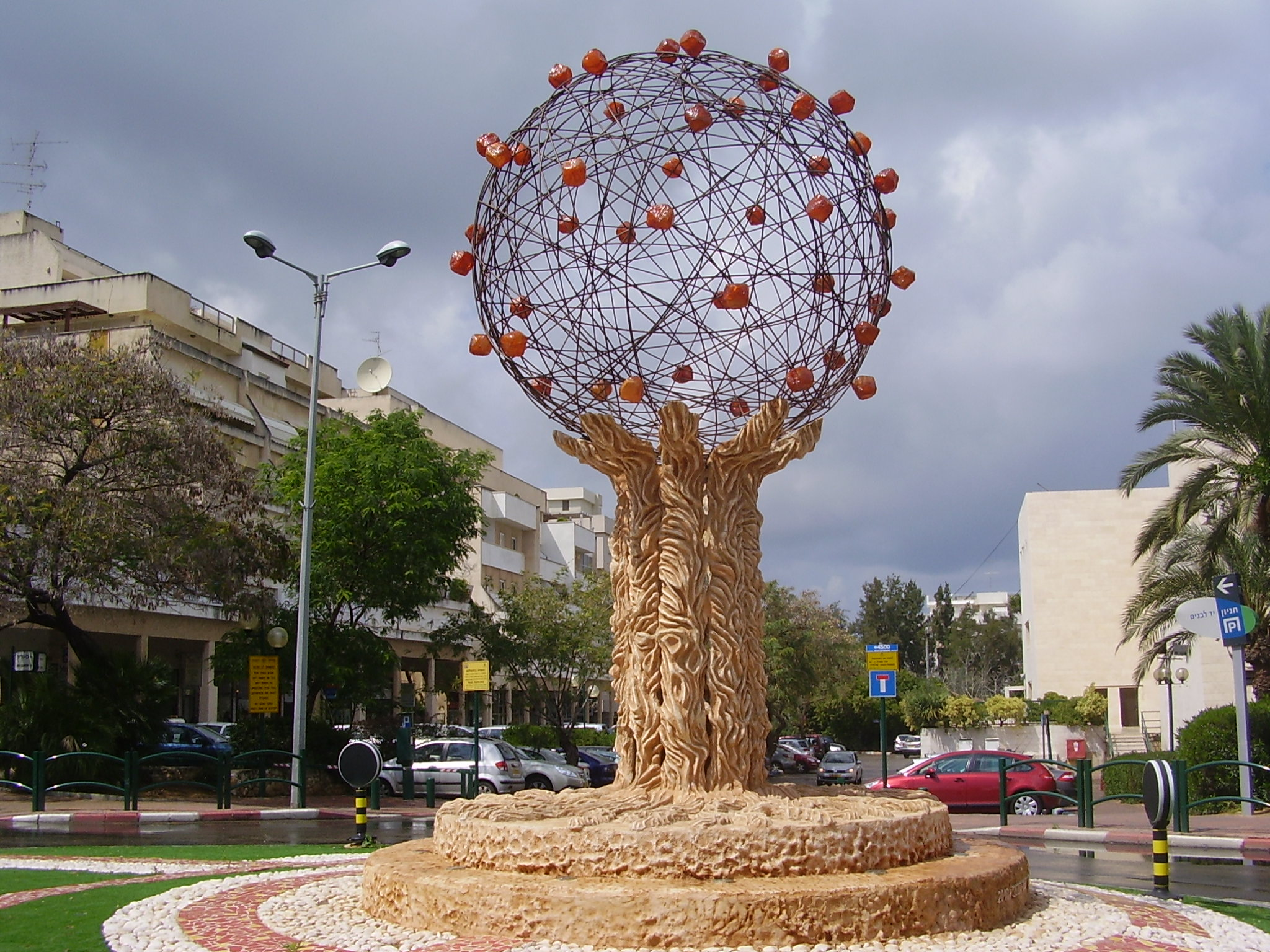 \"orange tree\" square in ra\'anana